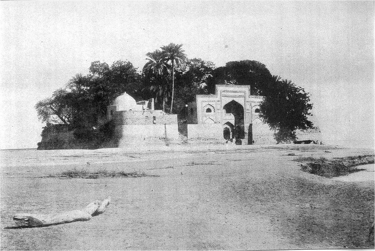 Outside view of the Khidr sanctuary located on a small island on the Indus near the town of Rohri in the Sindh province (Pakistan). Picture taken by Henry Cousens (The Antiquities of Sind, Calcutta 1929, Fig. 75).